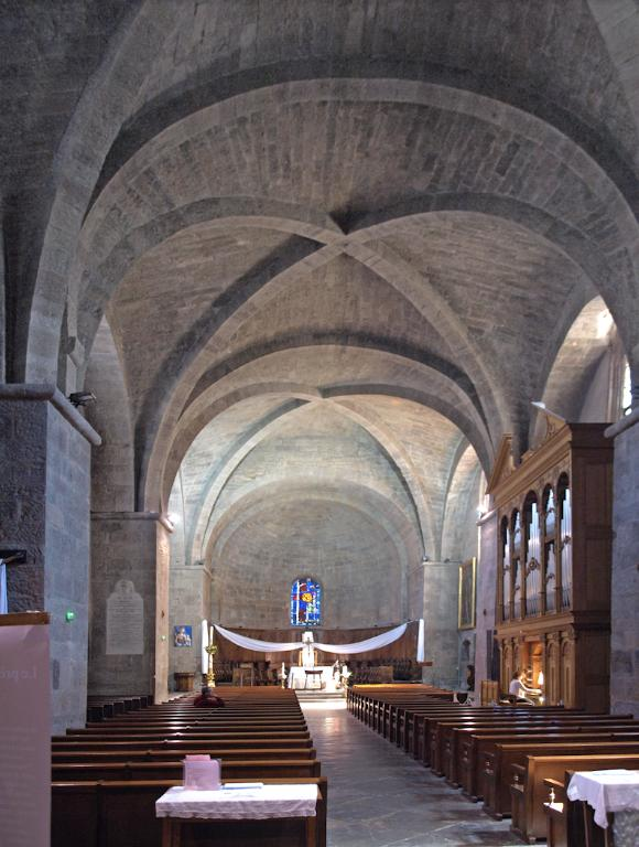 Fréjus (France), Cathedral, photo 2010